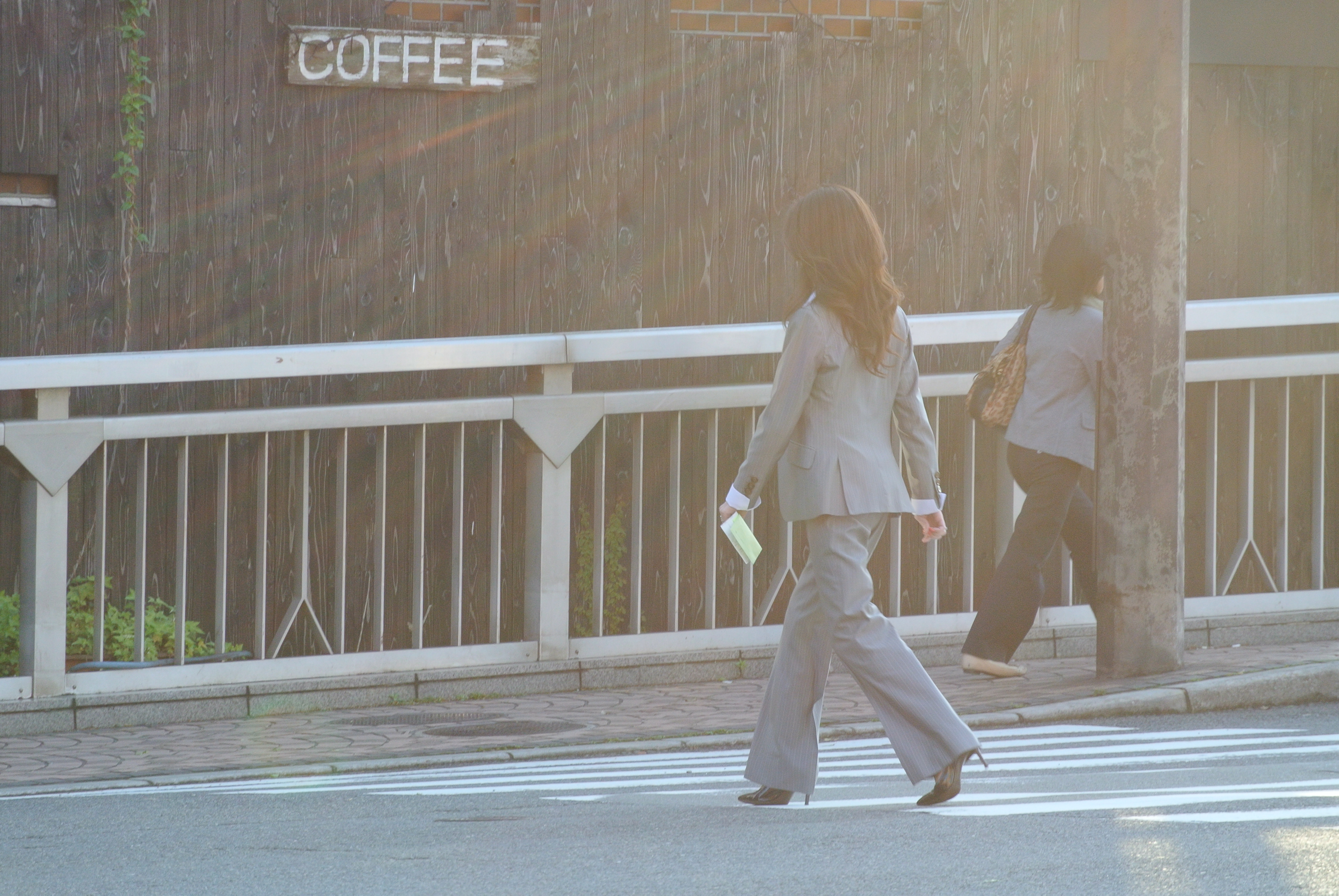 A career woman in Osaka, Japan